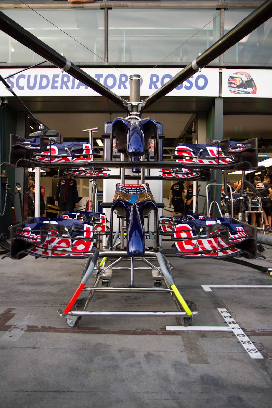 2014 Australian F1 Grand Prix